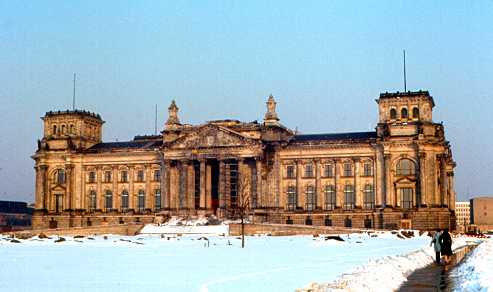 The Reichstag in Berlin was opened in 1894. It burned down in 1933, in a fire whose origins have never been definitely settled. It remained a ruin until after German reunification (1990). The Reichstag was rebuilt with a signature glass dome, and reopened iln 1999, as the home of Germany's Bundestag (parliament).